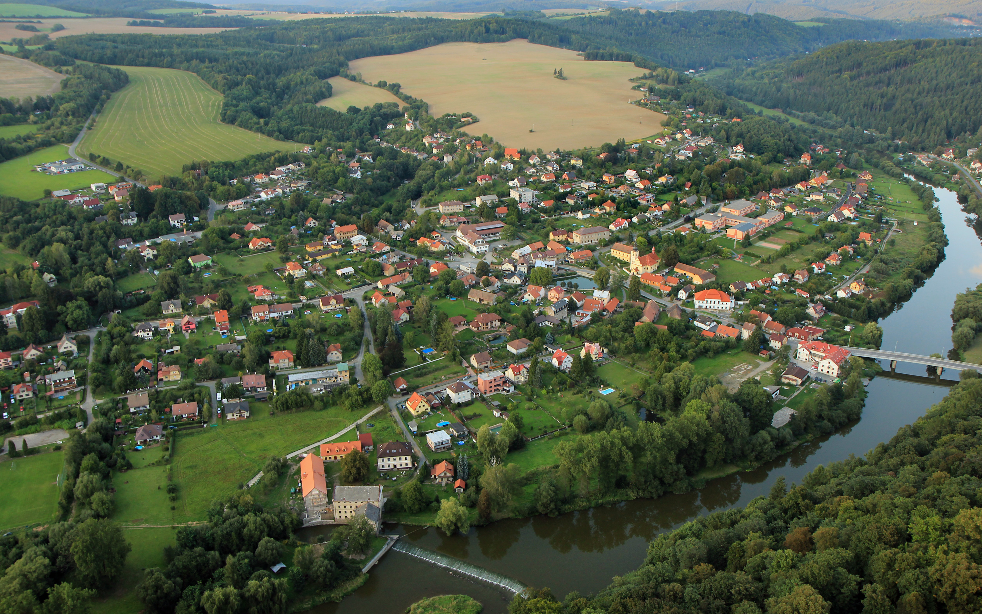 Aerial view of Chocerady, Czech Republic